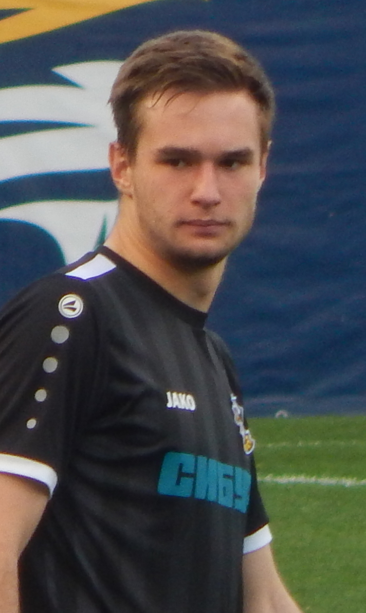 2018–19 Russian National Football League, match between FC Sochi and FC Tyumen. April 7, 2019, Fisht Olympic Stadium, Sochi, Russia